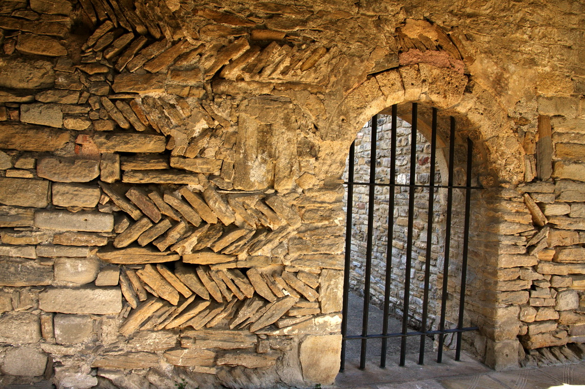 Cloister of the San Vicente Cathedral, in Roda de Isábena, Huesca, Spain.